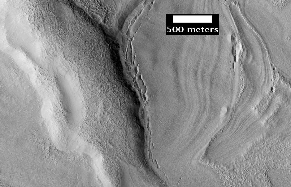 Pits and cracks in Protonilus Mensae, as seen by hirise, under HiWish program. Location is 43.7 N and 53.2 E.